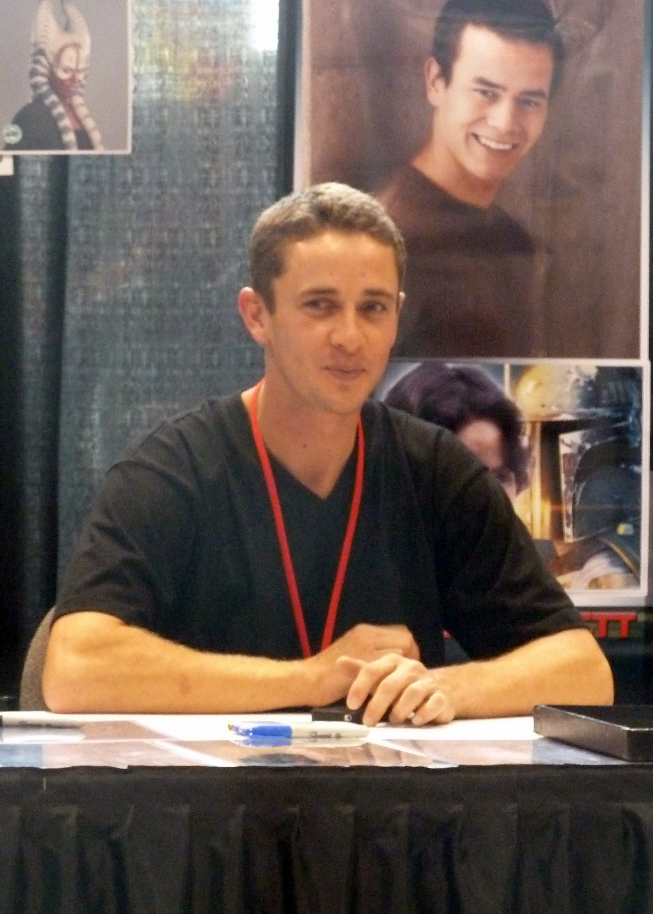 Logan in 2013